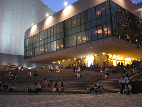 Hong Kong Cultural Center Night